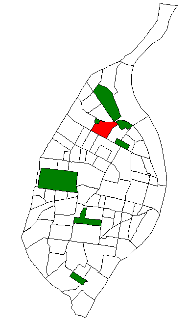 Map of St. Louis Neighborhood #69 (Penrose)